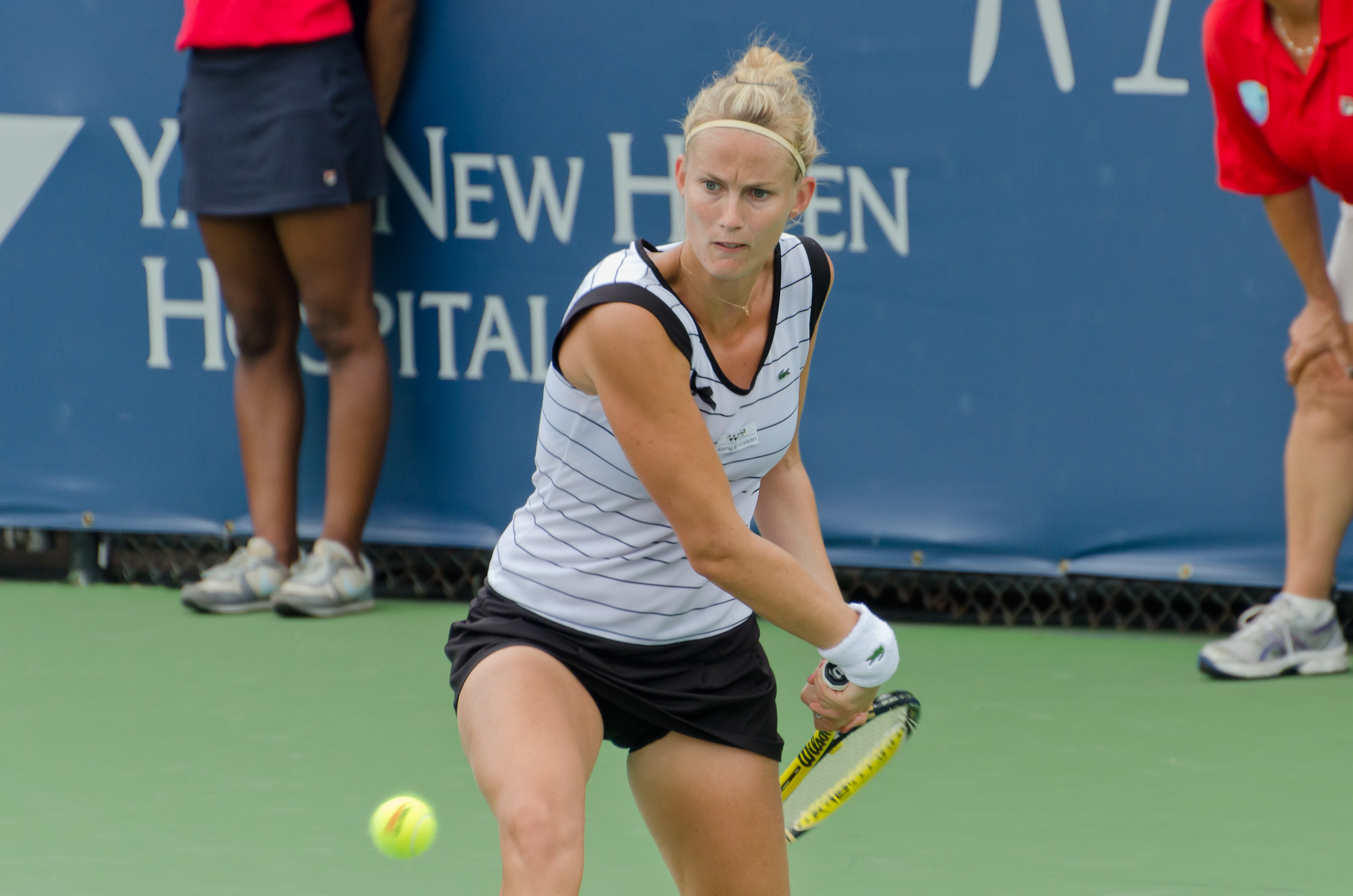 Mathilde Johansson returns a shot at the 2011 New Haven Open qualifying tournament.